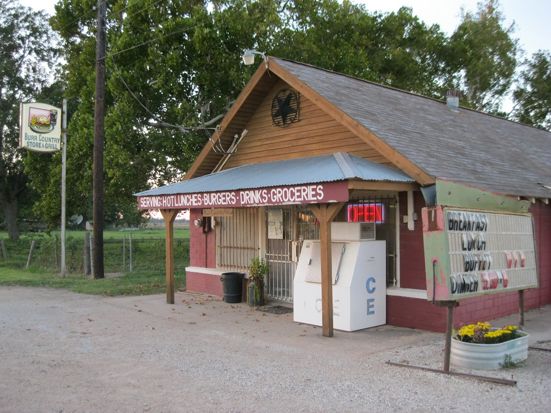 Photo shows the Burr Country Store and Grill on Farm to Market Road 1301 in Burr, Texas about 6 miles east of Wharton, Texas. The view is approximately north.